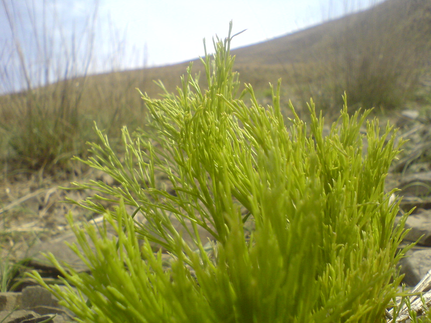 faraj abad فرج آباد روستایی زیبا در استان مرکزی شهرستان خمین